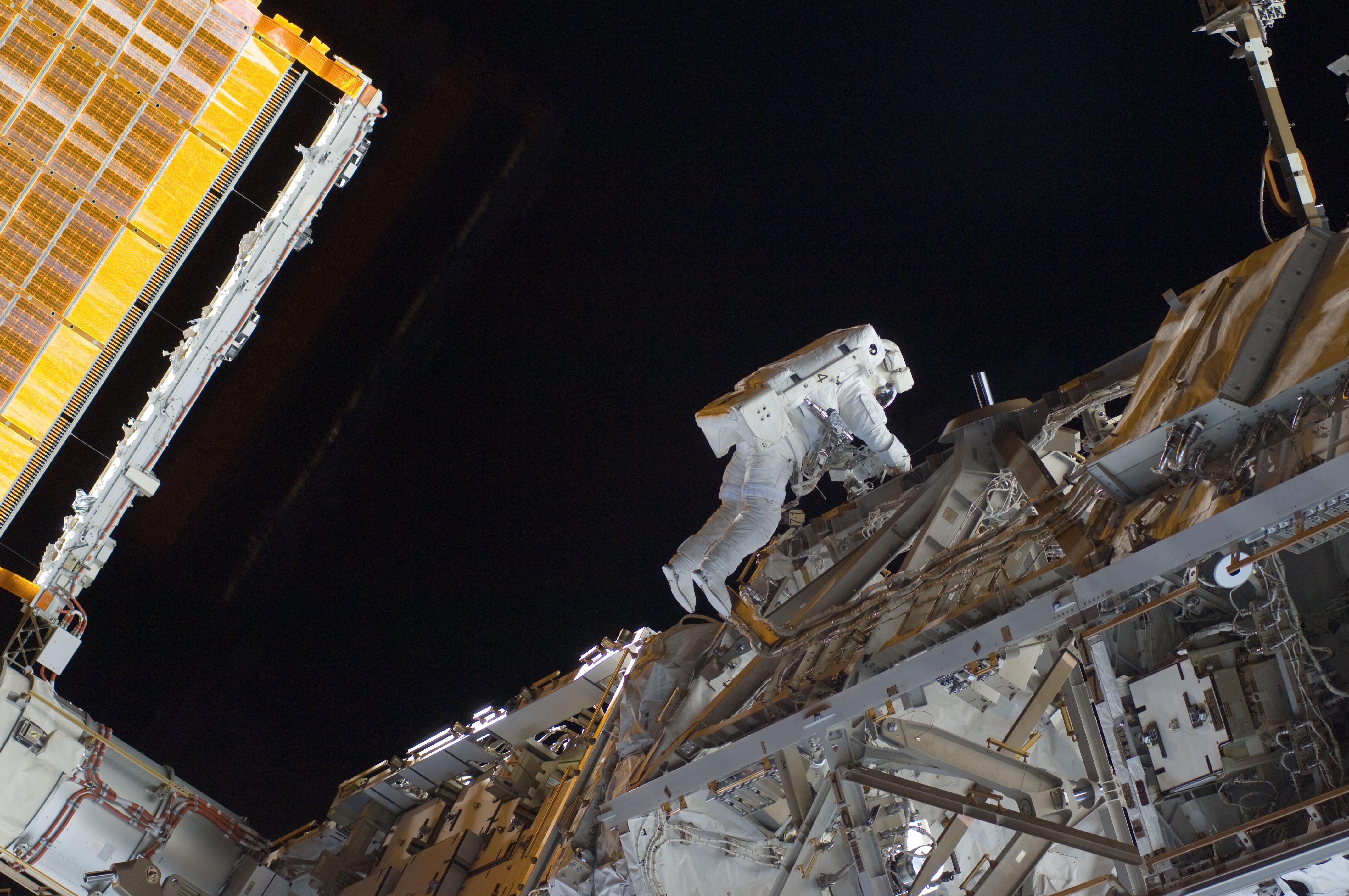 European Space Agency astronaut Christer Fuglesang, STS-128 mission specialist, participates in the mission's third and final session of extravehicular activity (EVA) as construction and maintenance continue on the International Space Station. During the seven-hour, one-minute spacewalk, Fuglesang and NASA astronaut John "Danny" Olivas (out of frame), mission specialist, deployed the Payload Attachment System (PAS), replaced the Rate Gyro Assembly #2, installed two GPS antennae and did some work to prepare for the installation of Node 3 next year. During connection of one of two sets of avionics cables for Node 3, one of the connectors could not be mated. This cable and connector were wrapped in a protective sleeve and safed. All other cables were mated successfully.